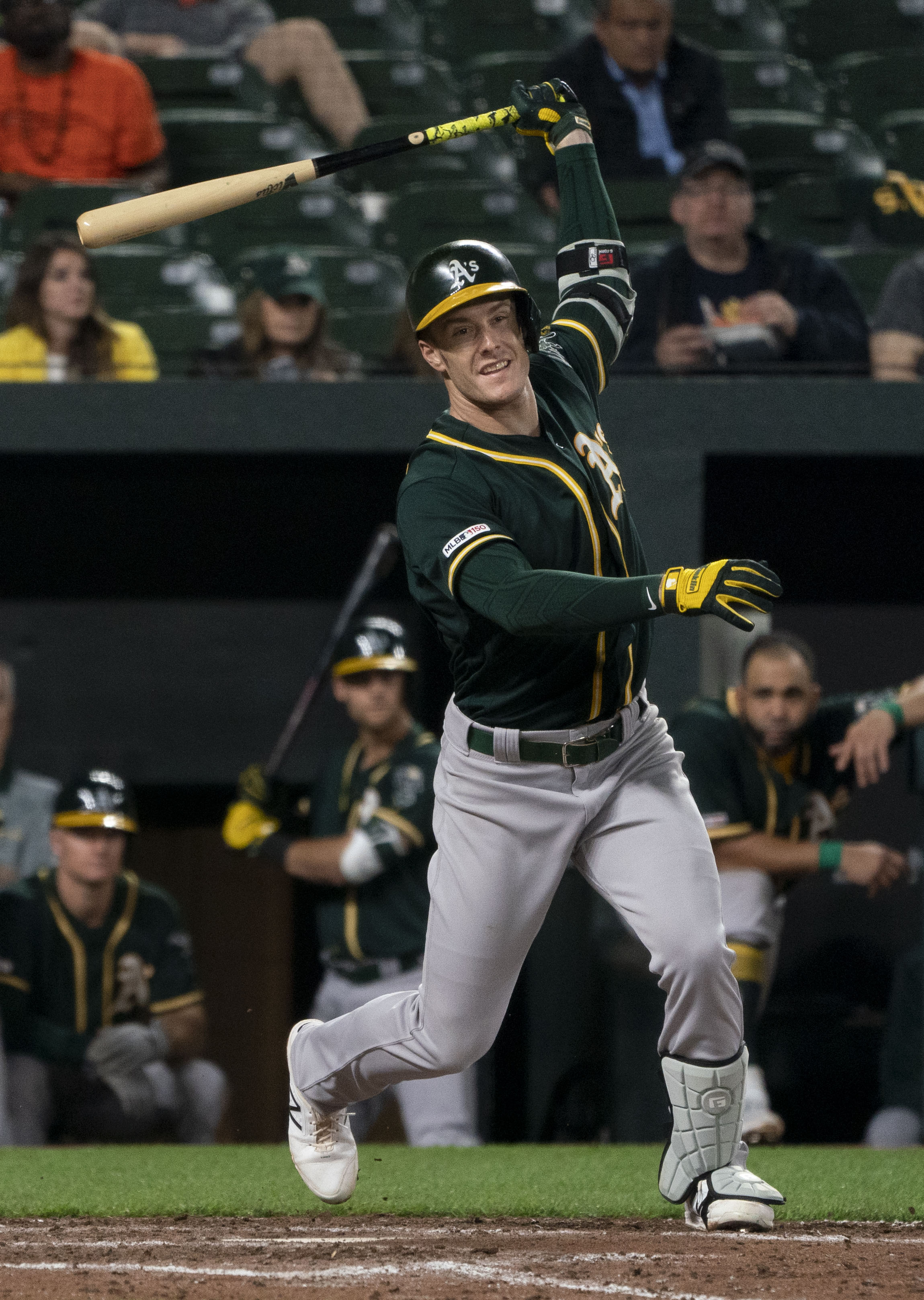 Mark Canha, Athletics at Orioles 4/8/19